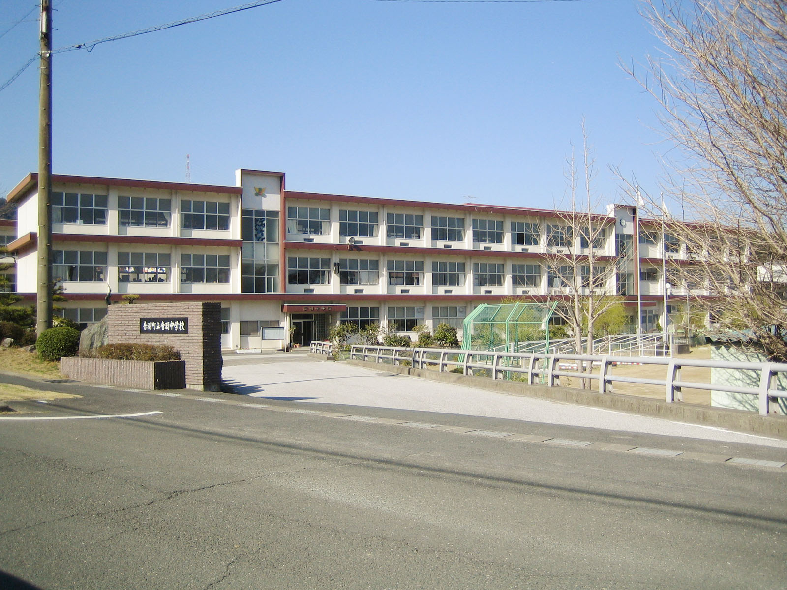 Otowa Junior High School (音羽中学校), at Otowa, Aichi, Japan